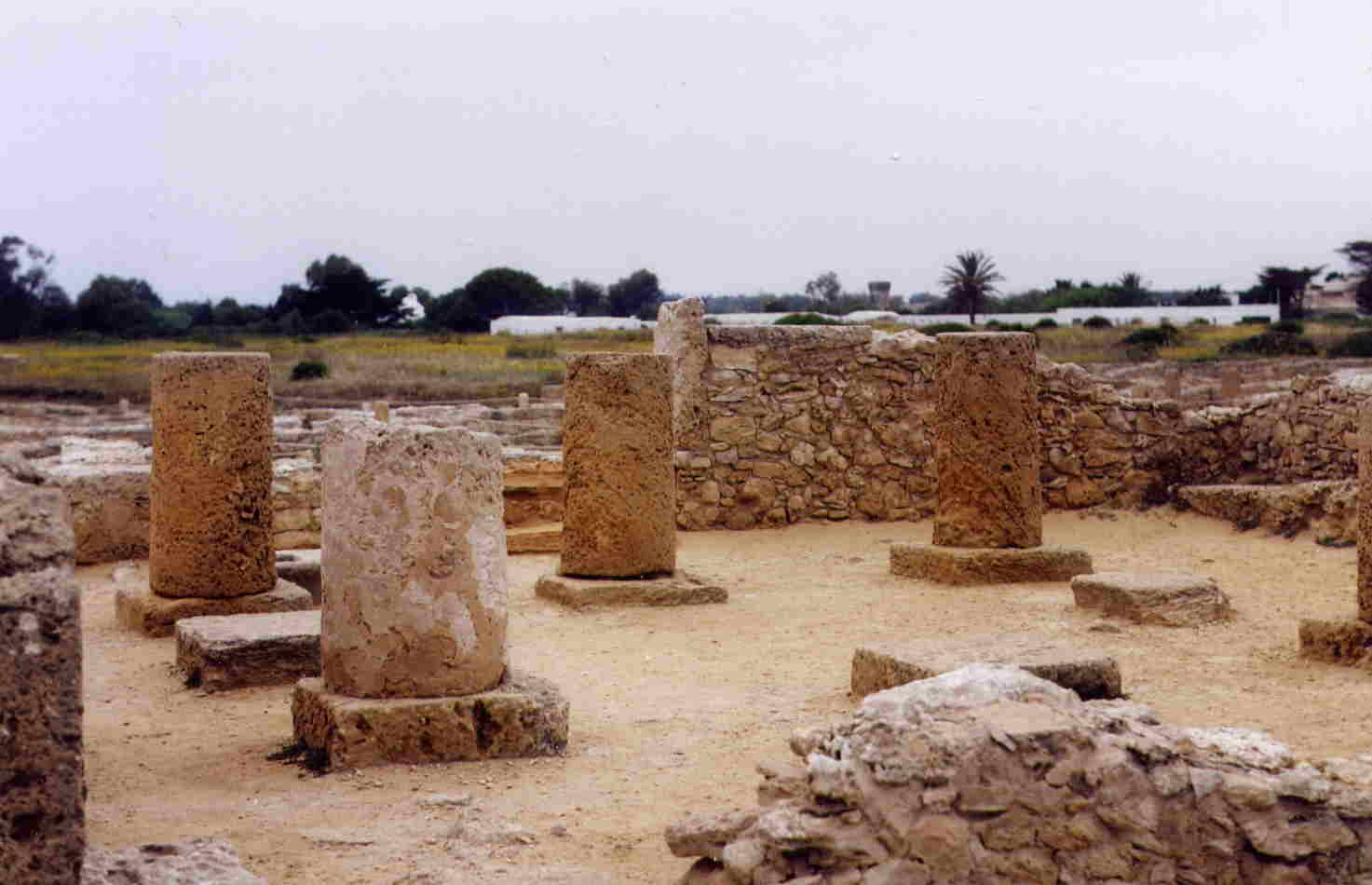 House in Kerkouane photo by Udimu (summer 2001)